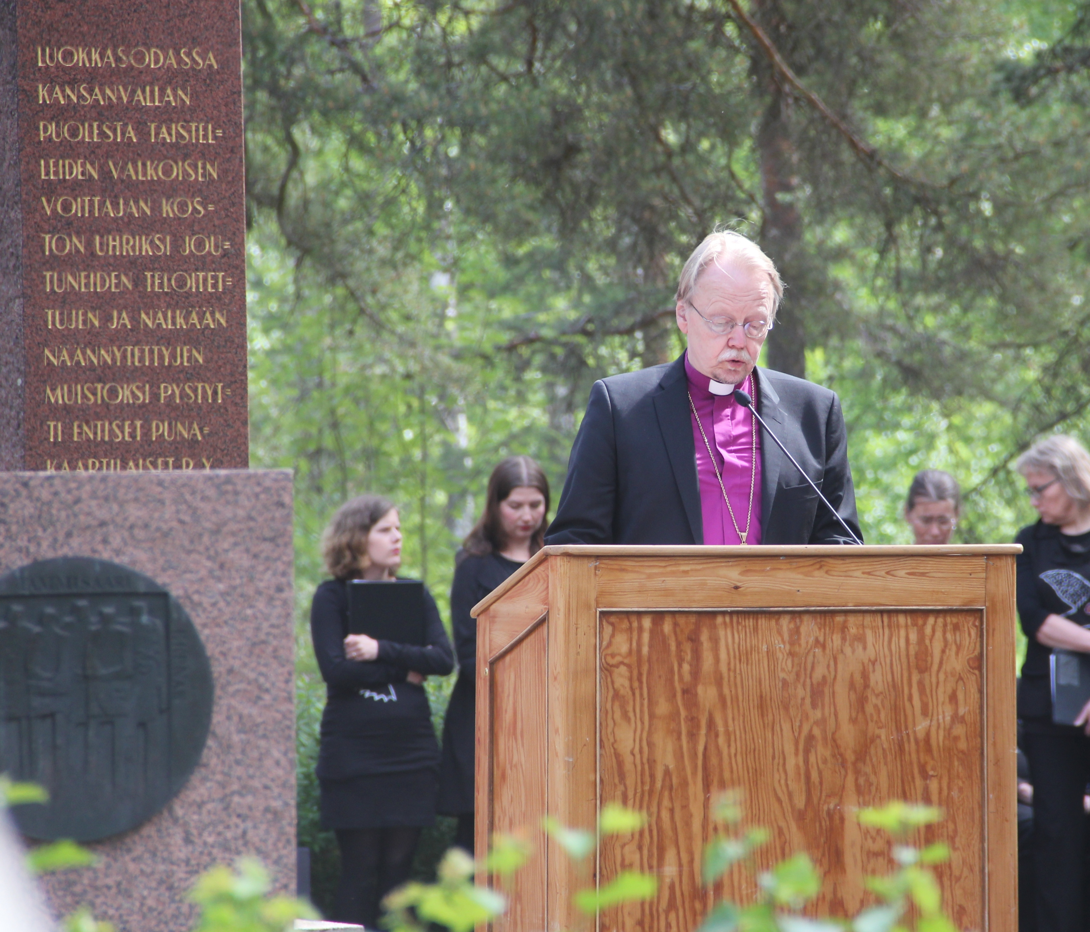 Archbishop Kari Mäkinen in Dragsvik, Raseborg on 9 June 2018.